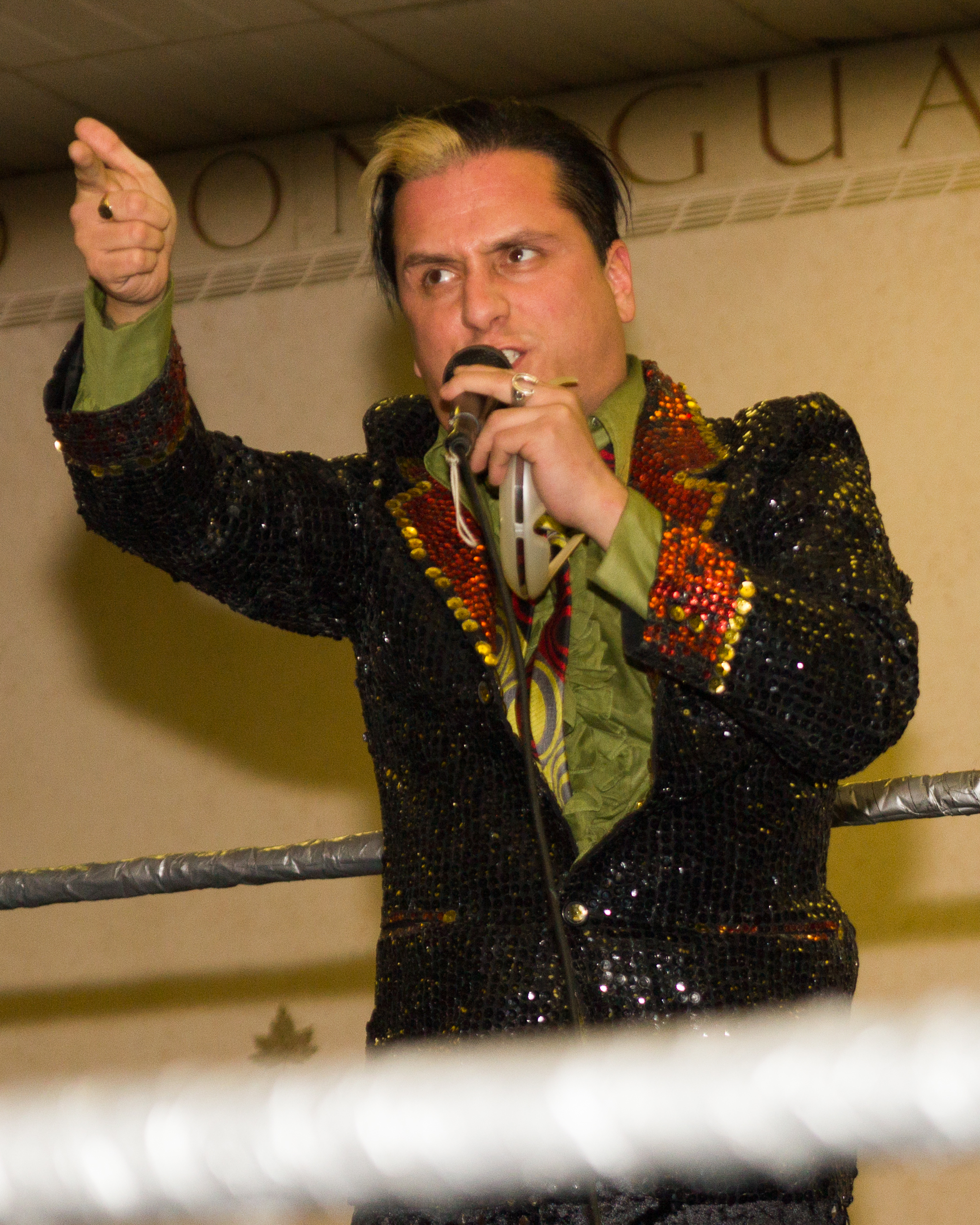 Mentalist Mysterion (born Christopher Doyle) at a wrestling show in Barrie, ON